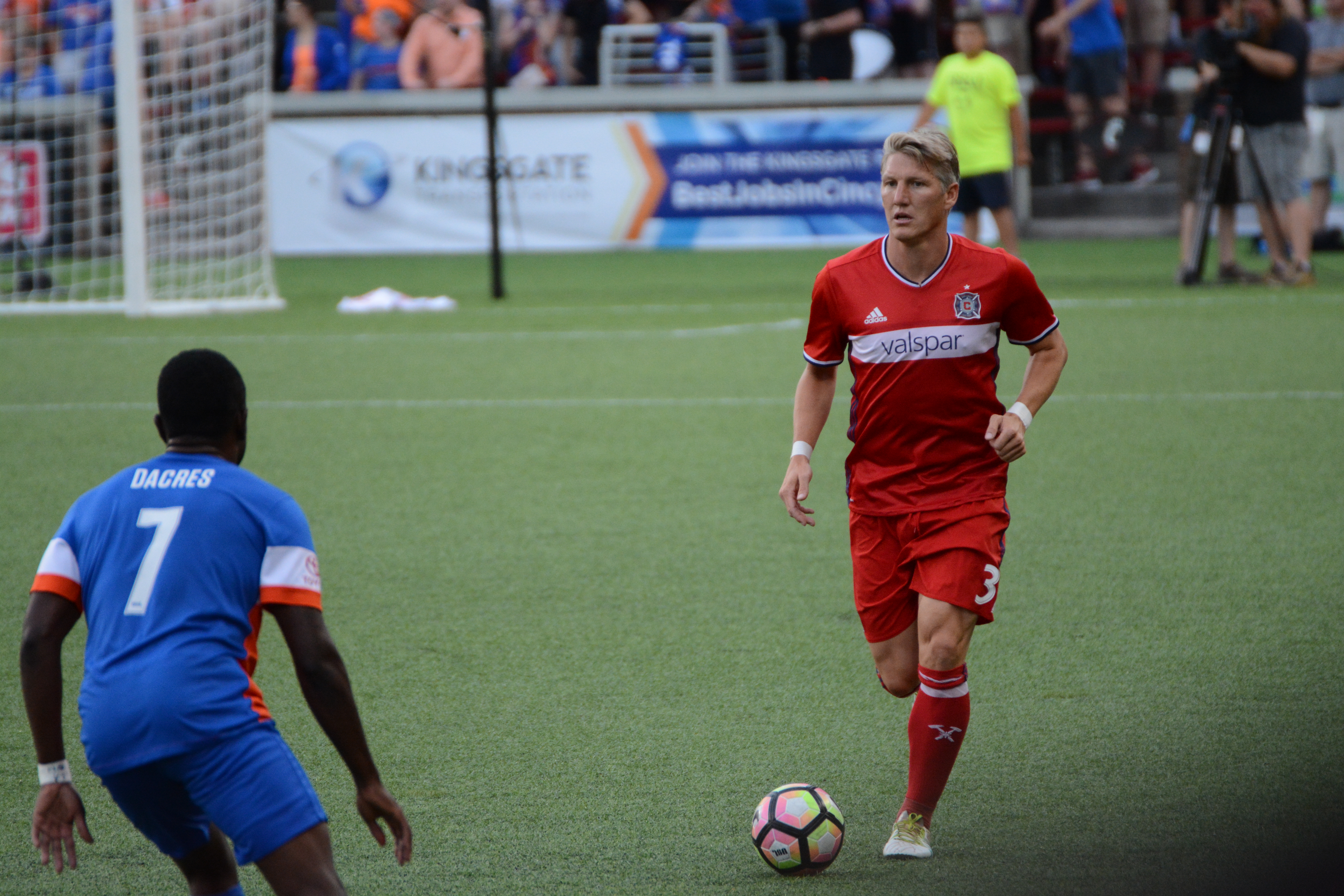 Taken at a U.S. Open Cup match between FC Cincinnati and Chicago Fire SC at Nippert Stadium in Cincinnati, Ohio on June 28, 2017.